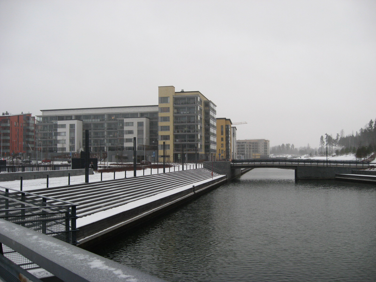 Uutela Channel, Aurinkolahti, Helsinki, Finland. Photo taken northward from Urheilukalastajansilta. The brigde is Uutela bride.